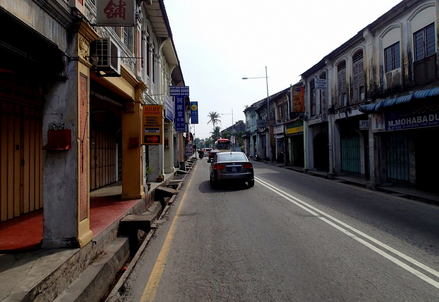 Street view of the old town of Bayan Lepas in southern Penang Island.